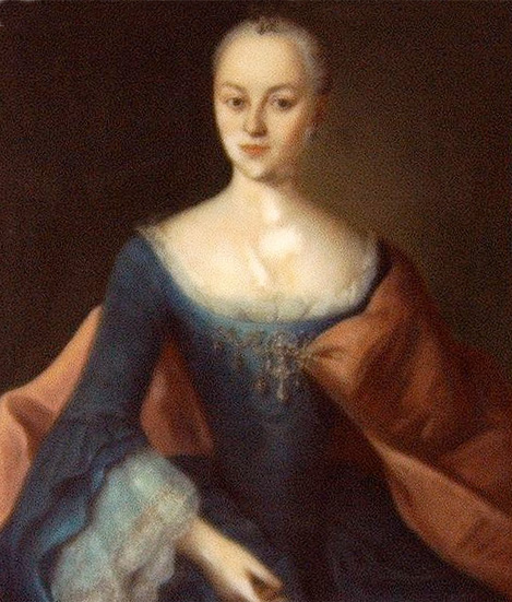 Portrait of Albertine Regine von Gemmingen-Hornberg (1740-1799)